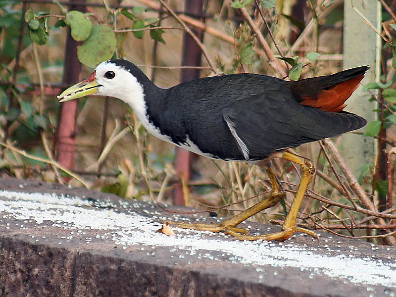 White-breasted Waterhen Amaurornis phoenicurus in Kolkata, West Bengal, India.